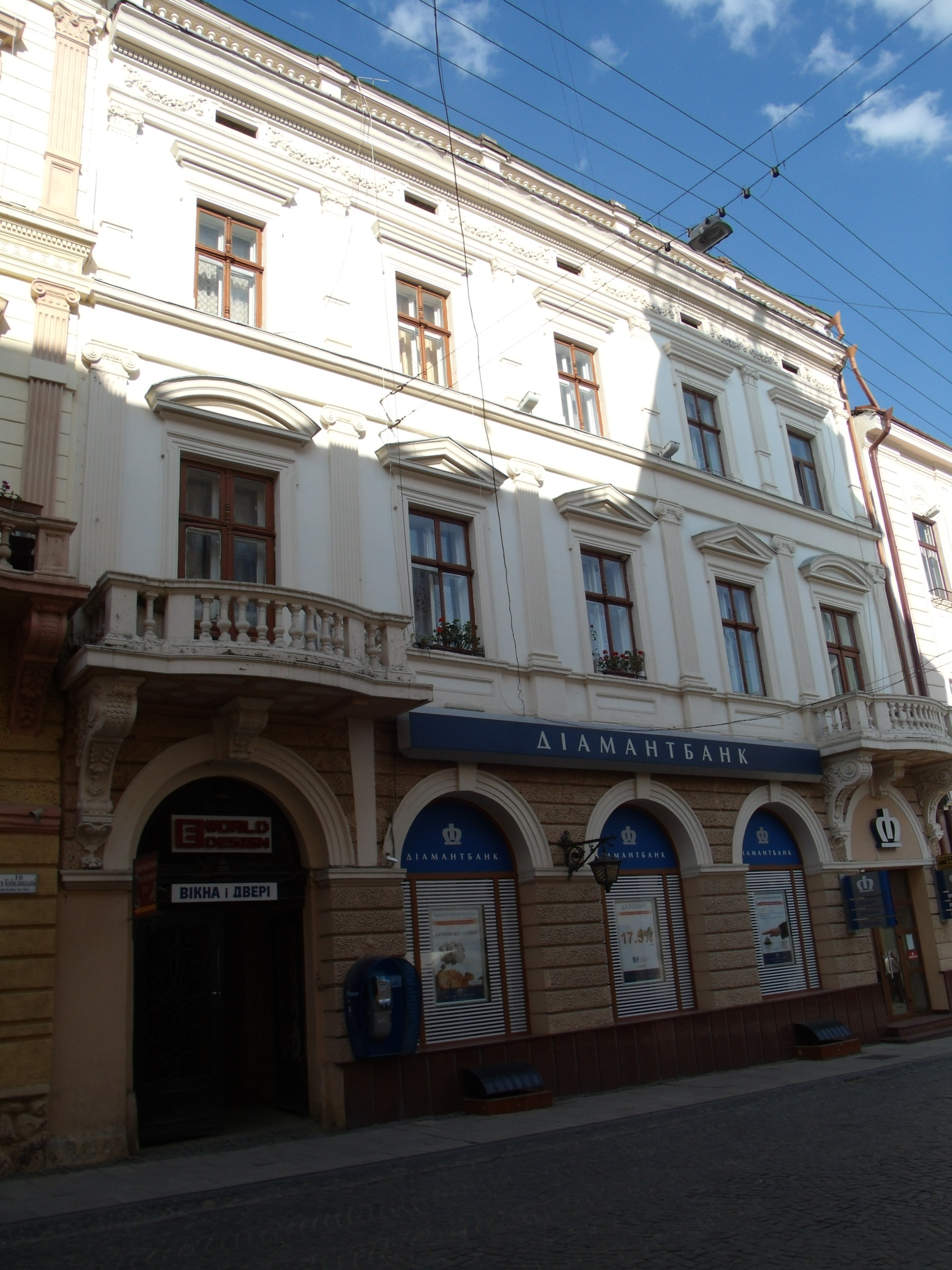 Chernivtsi, Kobylianska house 8